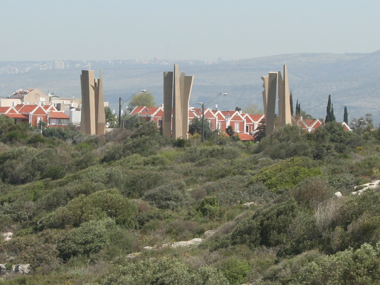 Atlit and Hof Carmel War Memorial in the foreground